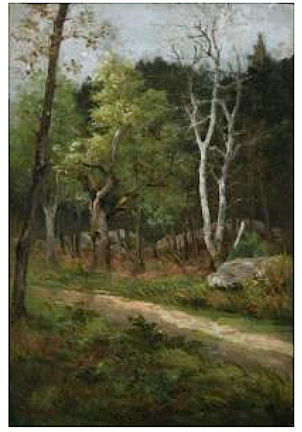 Forêt de Barbizon et bouleaux, oil on canvas.